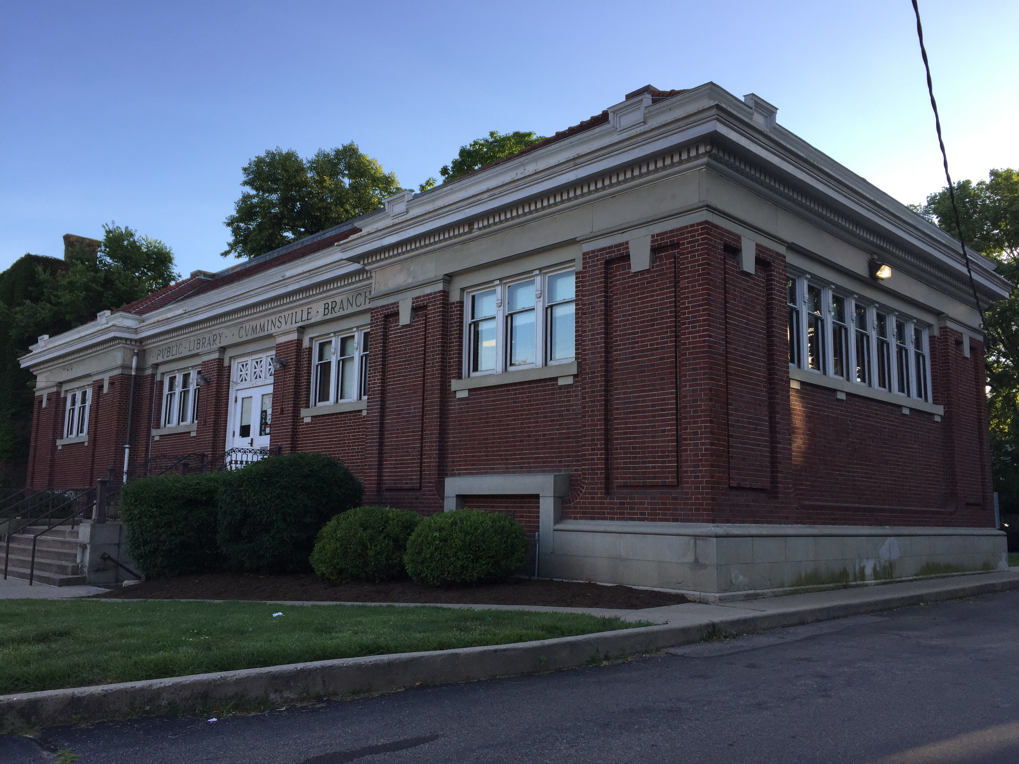 Northside Branch of the Public Library of Cincinnati and Hamilton County in Cincinnati in 2019